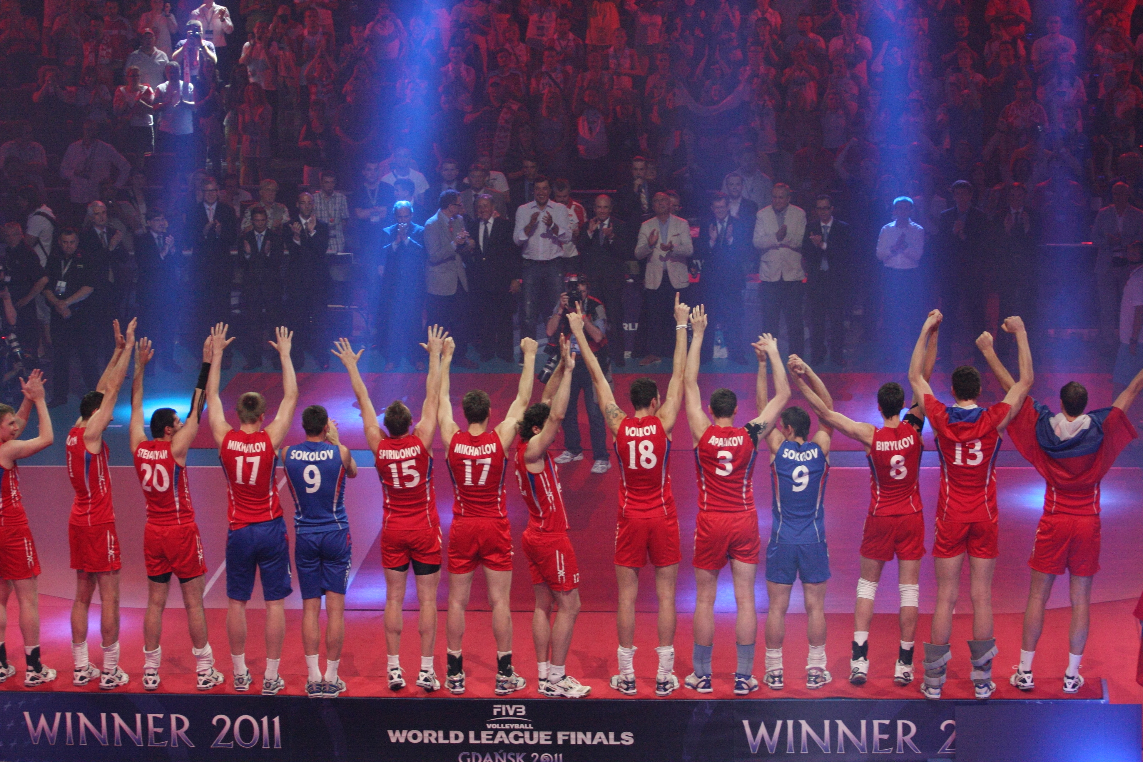 World League Final, Gdańsk 2011 Poland vs Argentina; Brazil vs Russia